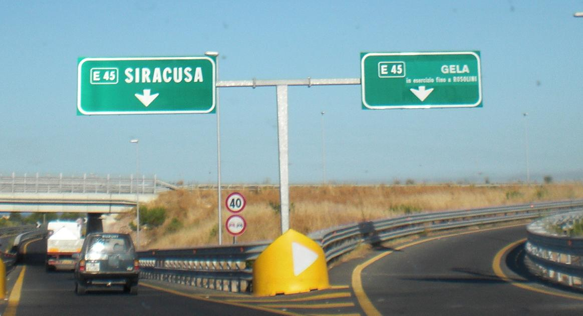 Sicilian motorway sign with indication for the European Route E45